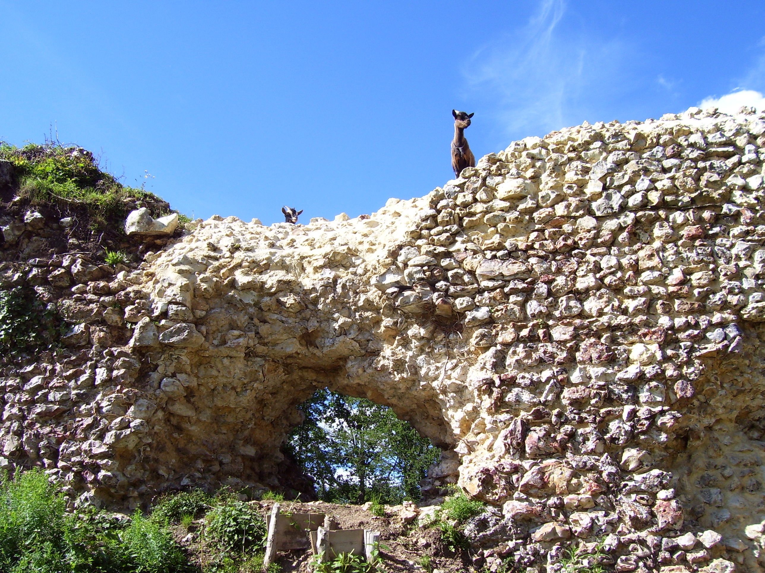 Goats on a wall of the medieval castle of Montfort-sur-Risle (departement Eure, Haute-Normandie, France), which was built in 11th century.